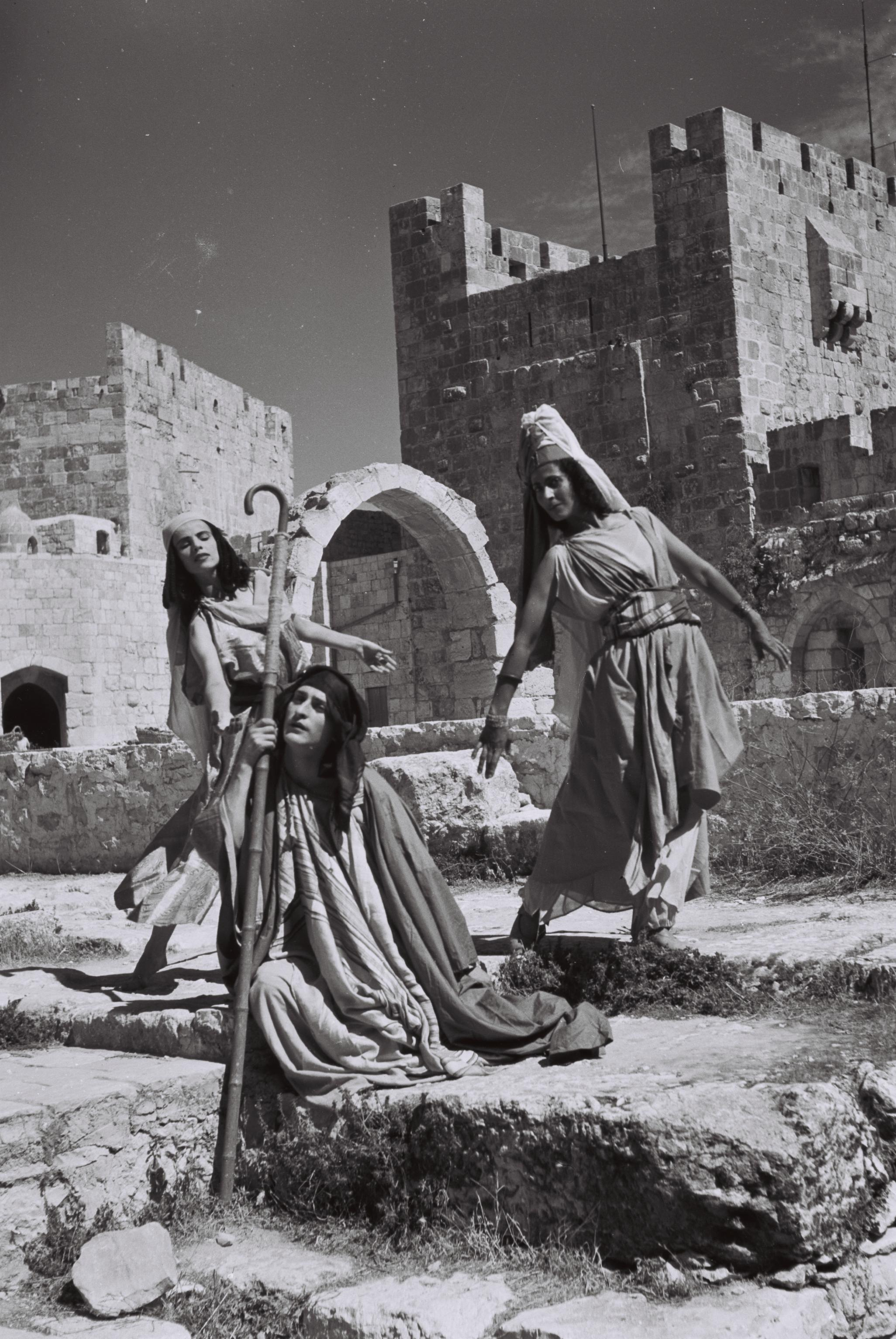 The Rina Nikova Ballet Group performing an oriental dance at the citadel of Jerusalem